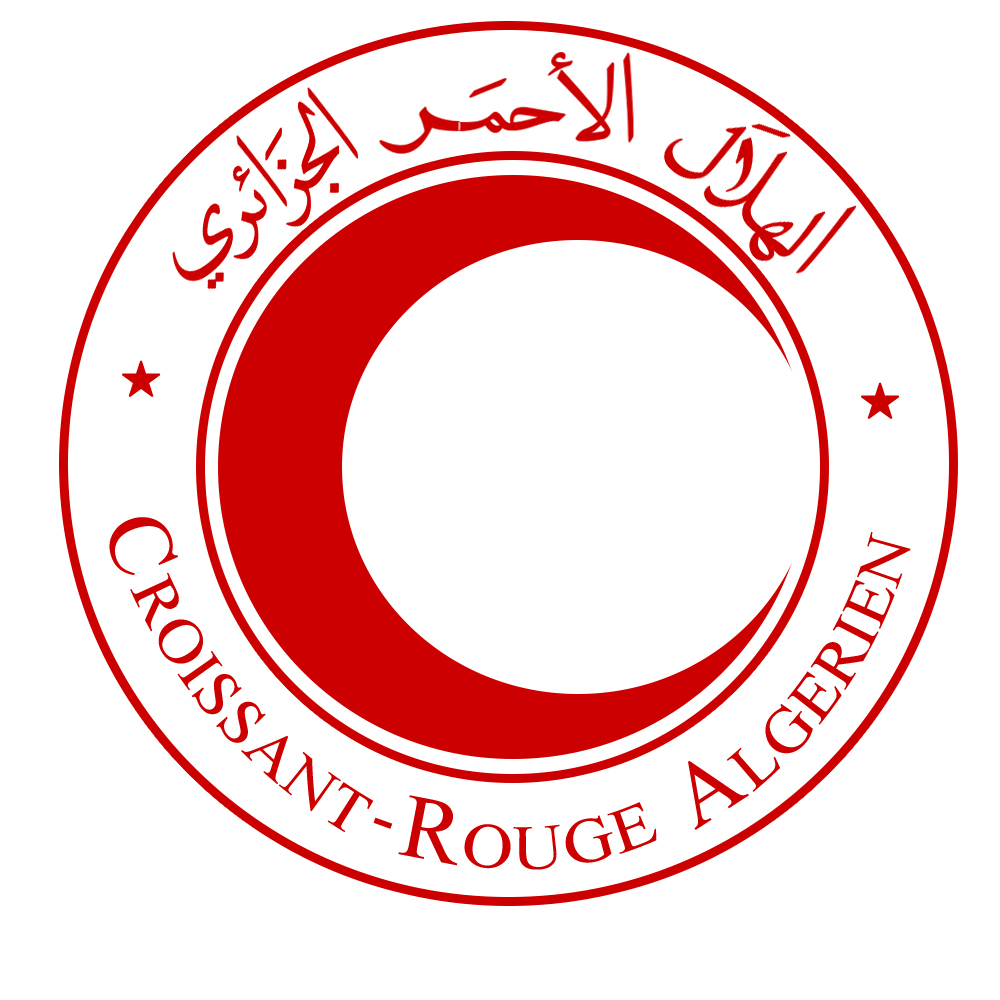 Algerian Red Crescent Society